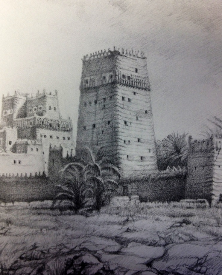 Drawing by Wahbi al-Hariri-Rifai titled Home of Jaber bin Hussein bin Naseeb. Najran, Saudi Arabia, 1981. Graphite on paper. Drawing taken from the catalogue of From Washington to Riyadh exhibition held at the National Museum of Saudi Arabia in 2012.